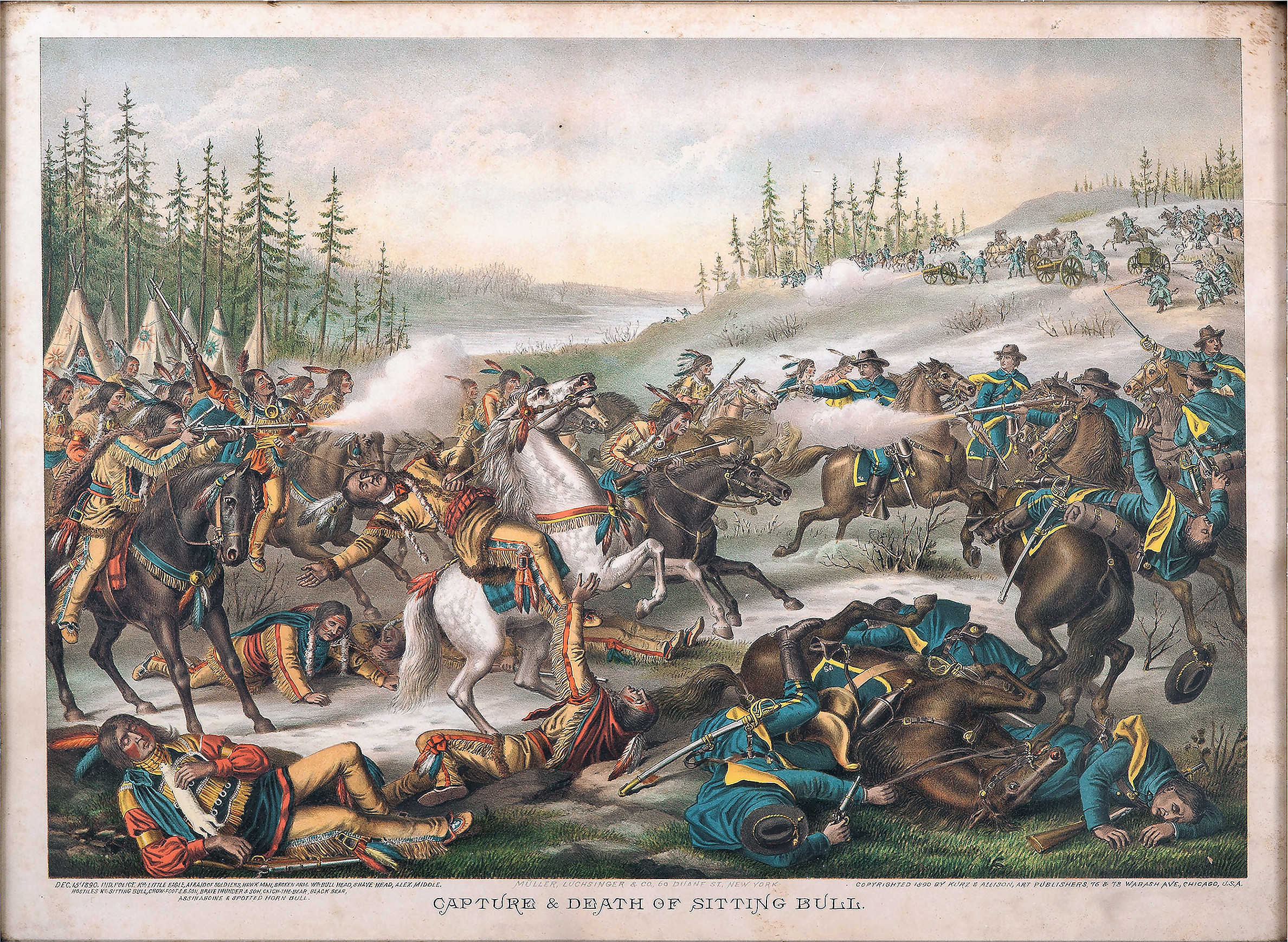 Hand-Colored Lithograph of the Capture & Death of Sitting Bull